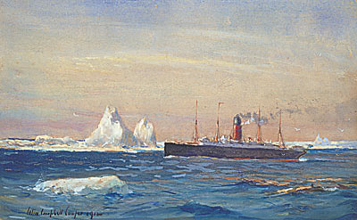 painted by Cooper during the rescue operation while he was aboard the Carpathia